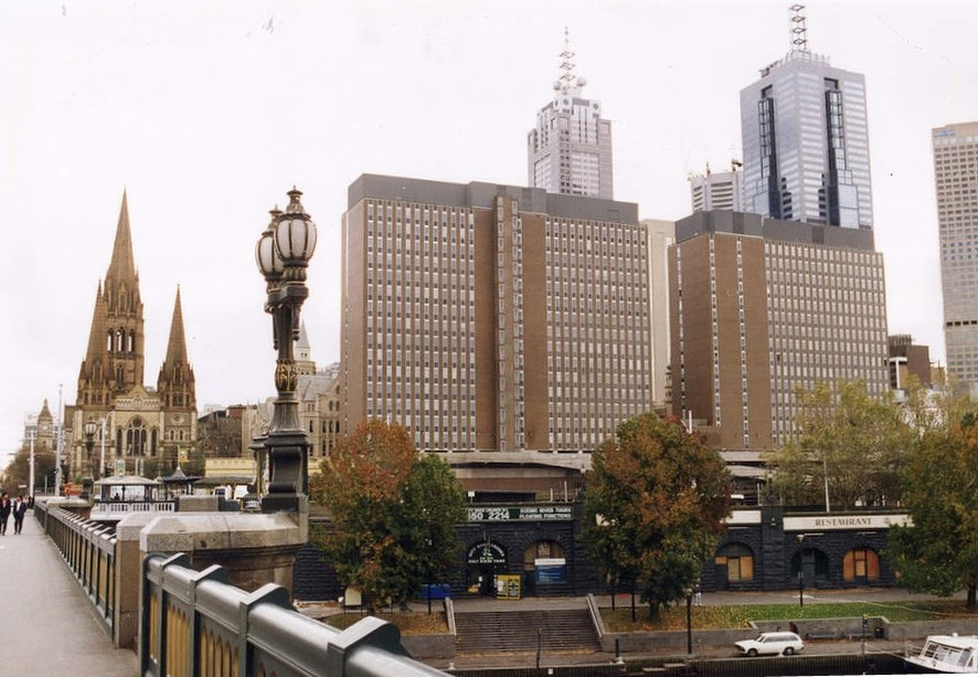 Gas & Fuel towers Melbourne taken c1996